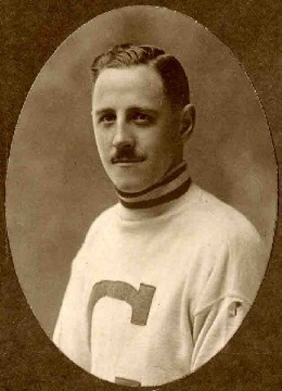 Ernest Collett of the Toronto Granites hockey club in the 1921–1922 season.